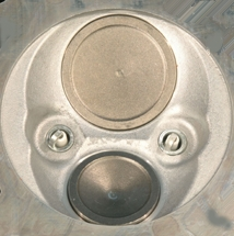 I am the author Photo taken 2006